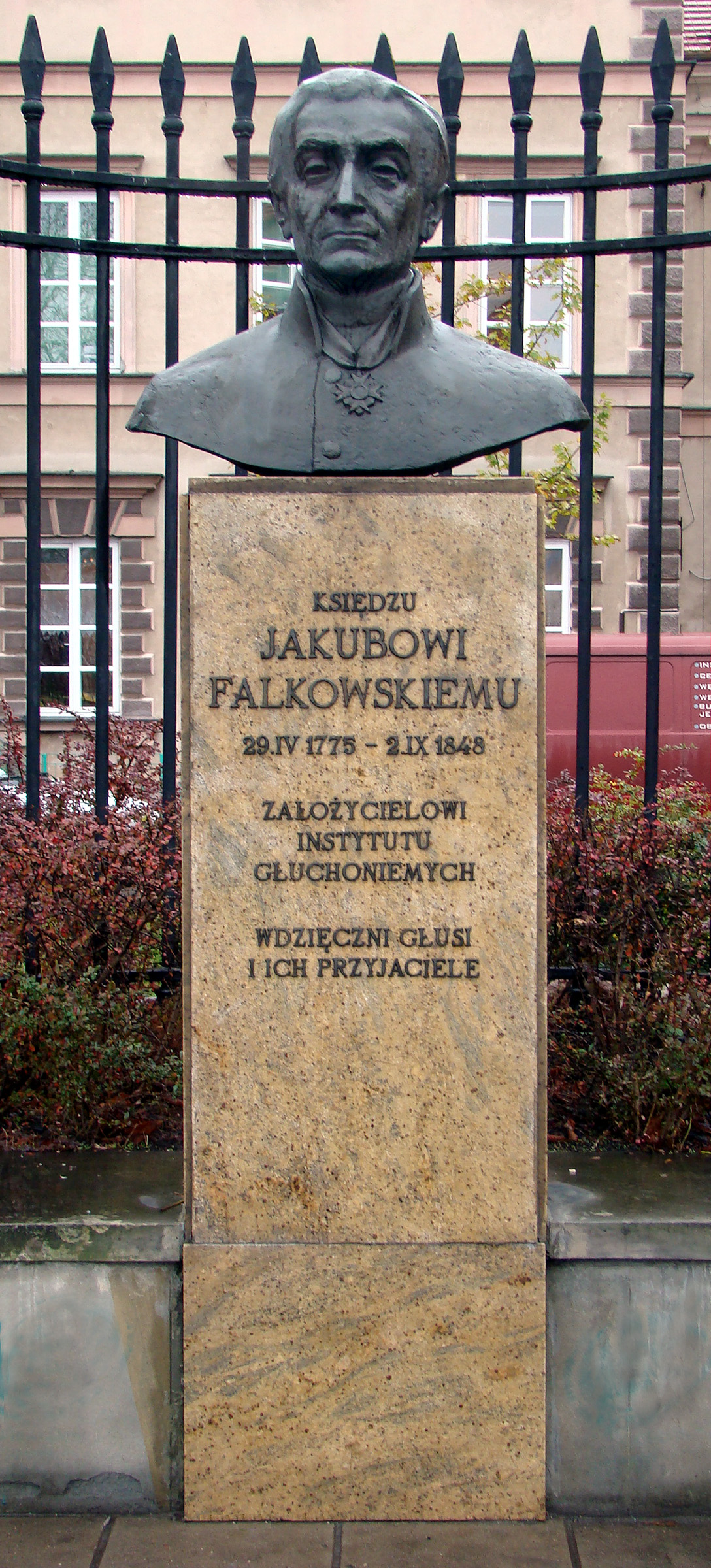 Jakub Falkowski, Polish clergyman and teacher